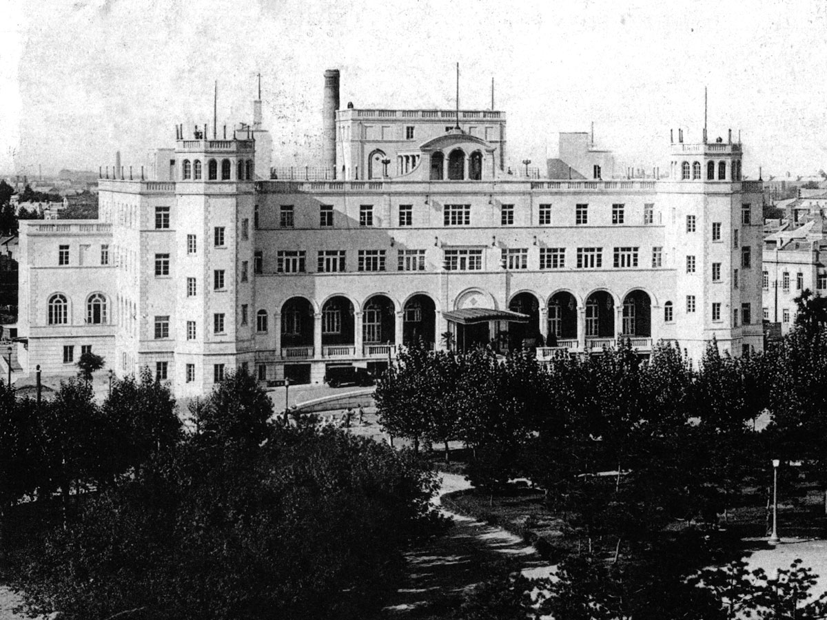 Yamato Hotel Mukden (Fengtian)